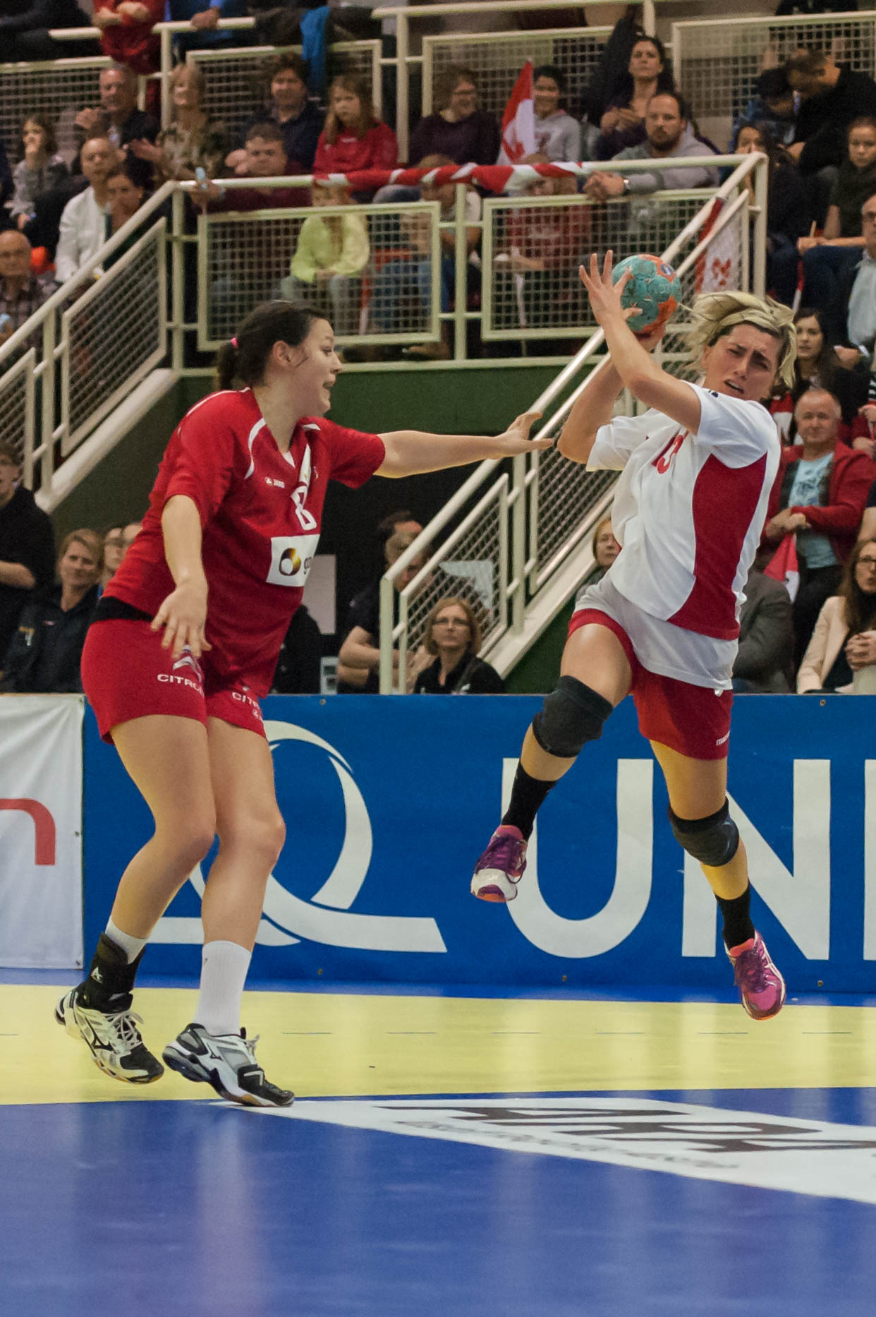 2015 World Women's Handball Championship Qualification 2014-12-06: Serpil İskenderoğlu